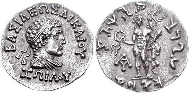 Coin of the Indo-Graeco king Zoilos I